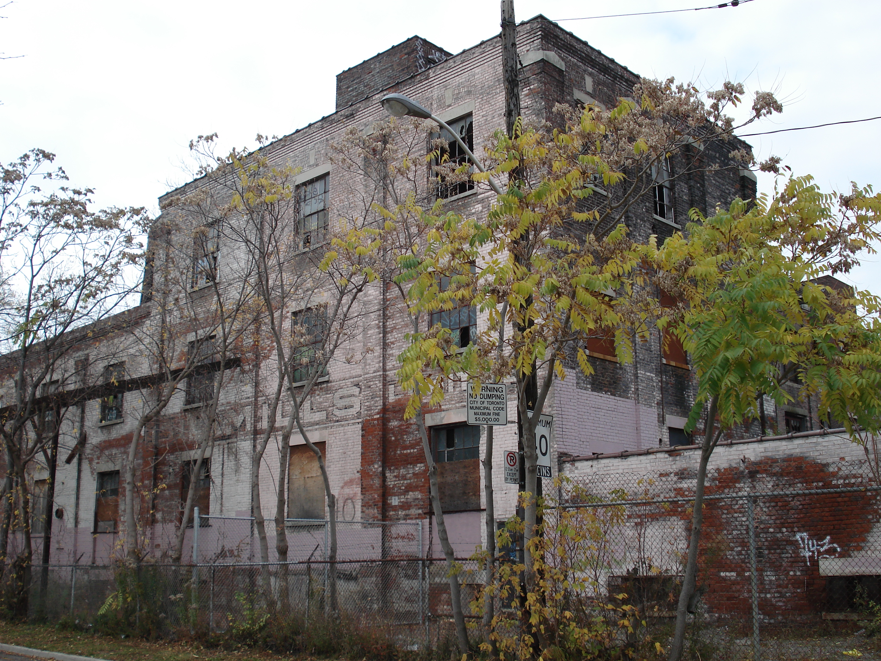 Old Building in Roncessvalles, Toronto Ont.